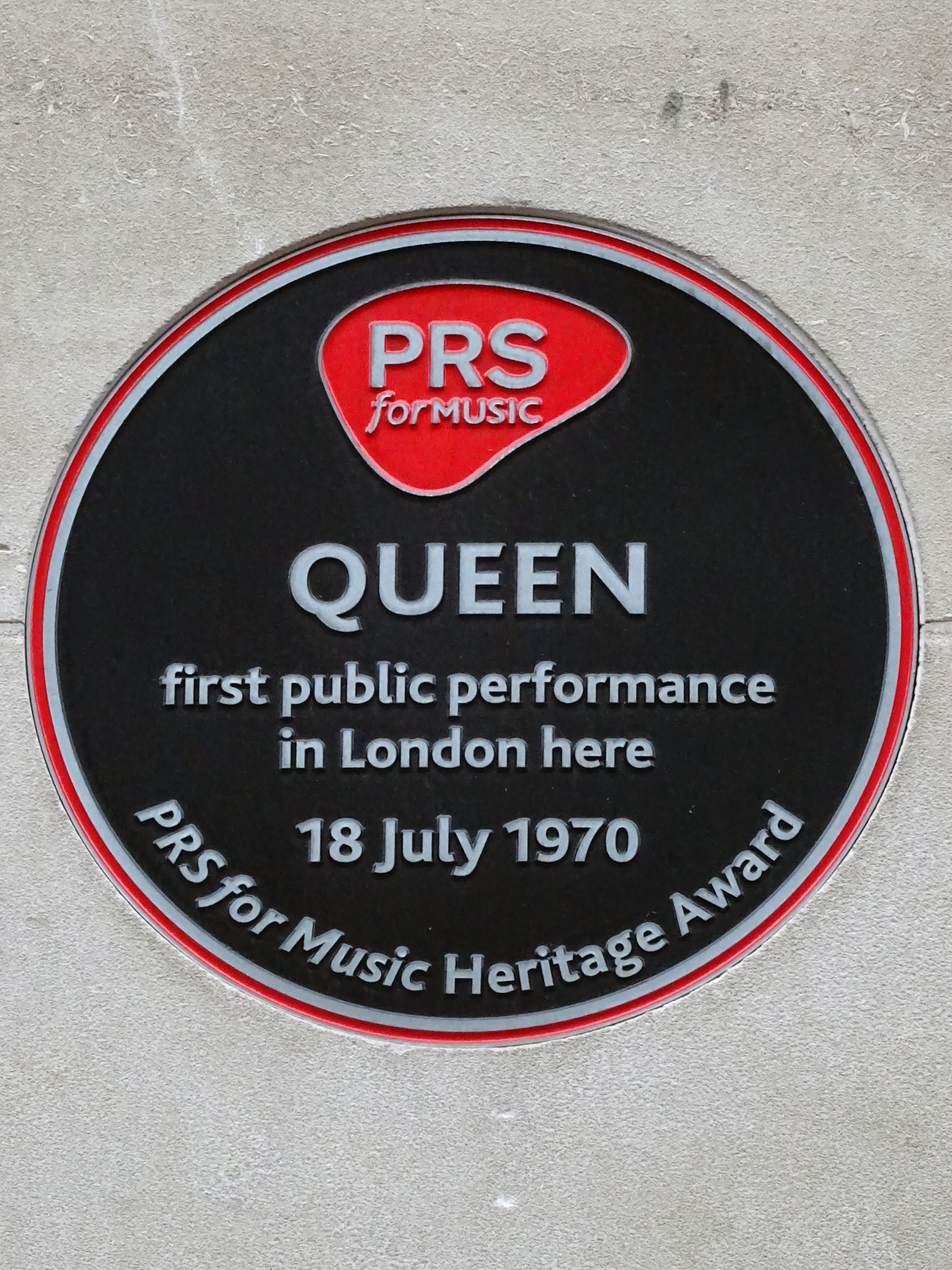 Black plaque erected on 5th March 2013 by the Performance Rights Society (PRS) for Music at Imperial College London, Prince Consort Road, London SW7